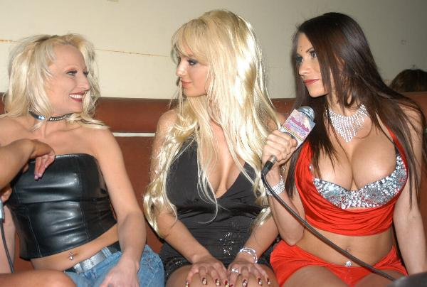 Natasha Stone, Amy Anderssen, Sheila Marie at Forbidden City party on March 31, 2007